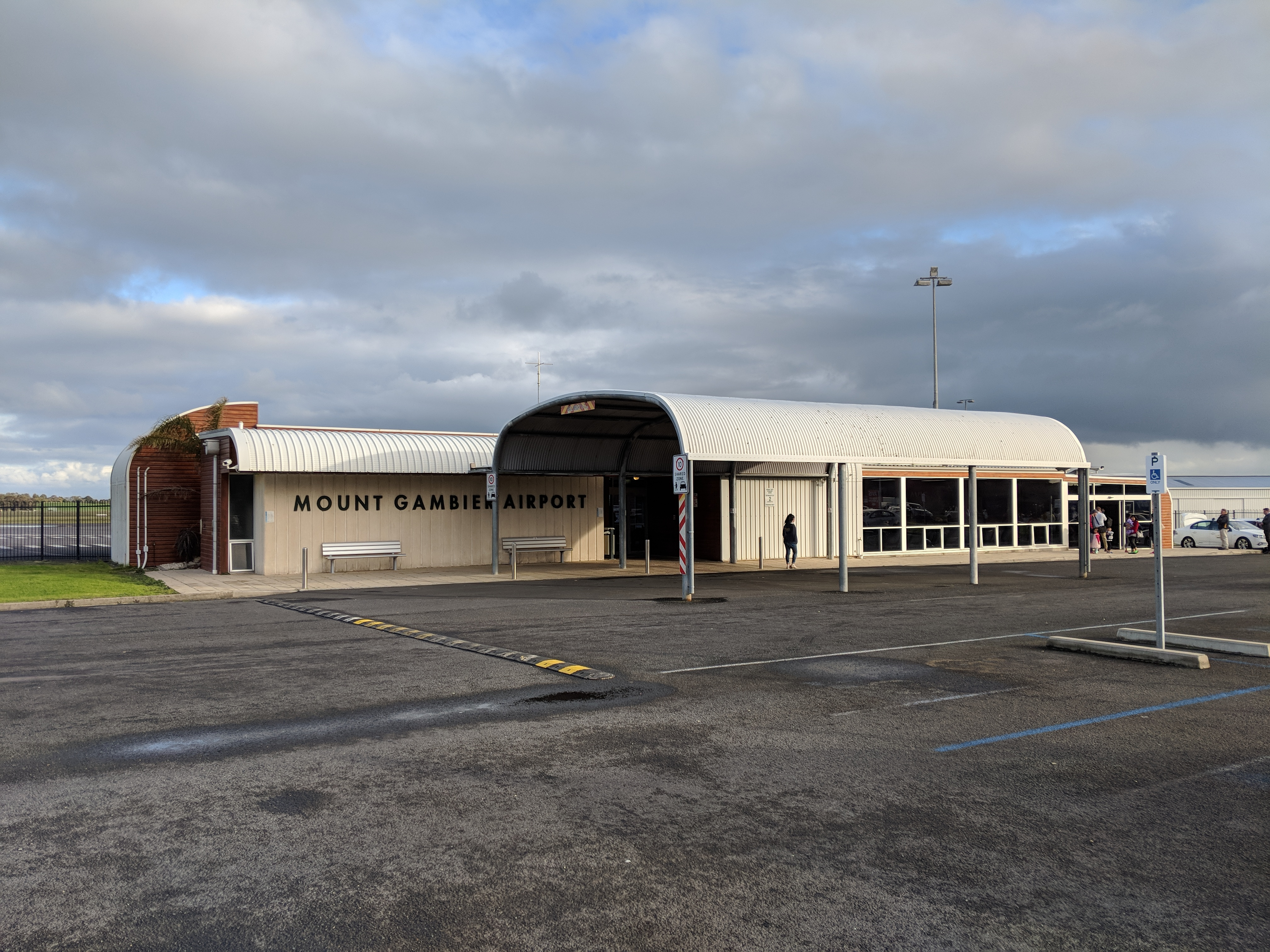 Mount Gambier Airport terminal building in Wandilo, South Australia, taken from the car park.